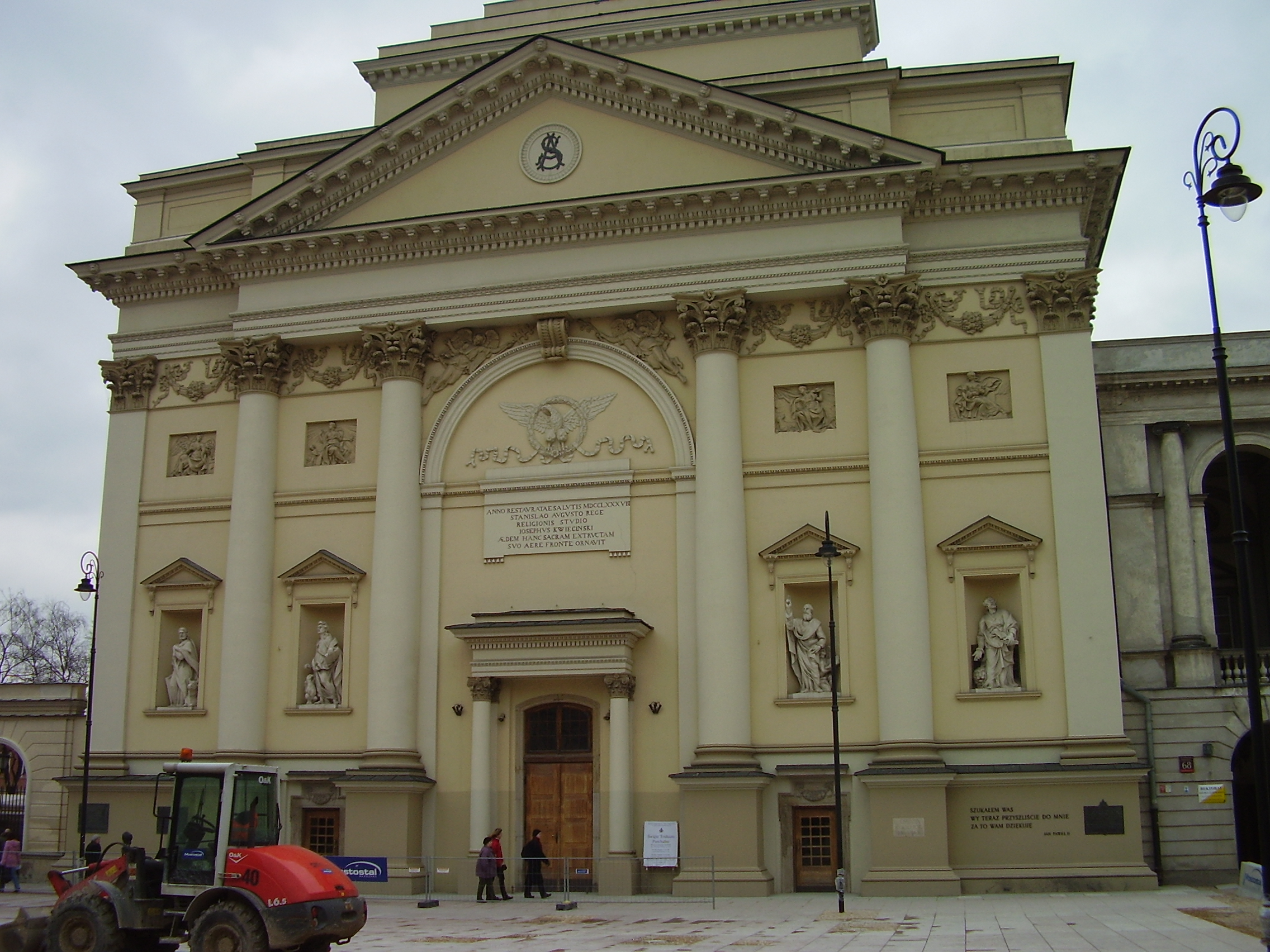 Warsaw during Easter 2008